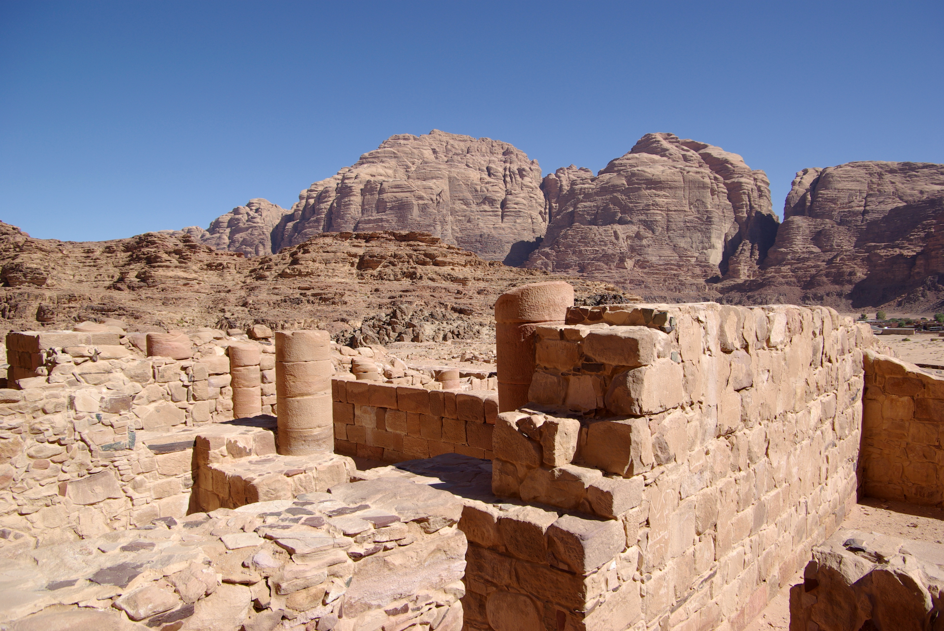 Wadi Rum, ruins of a nabataean temple